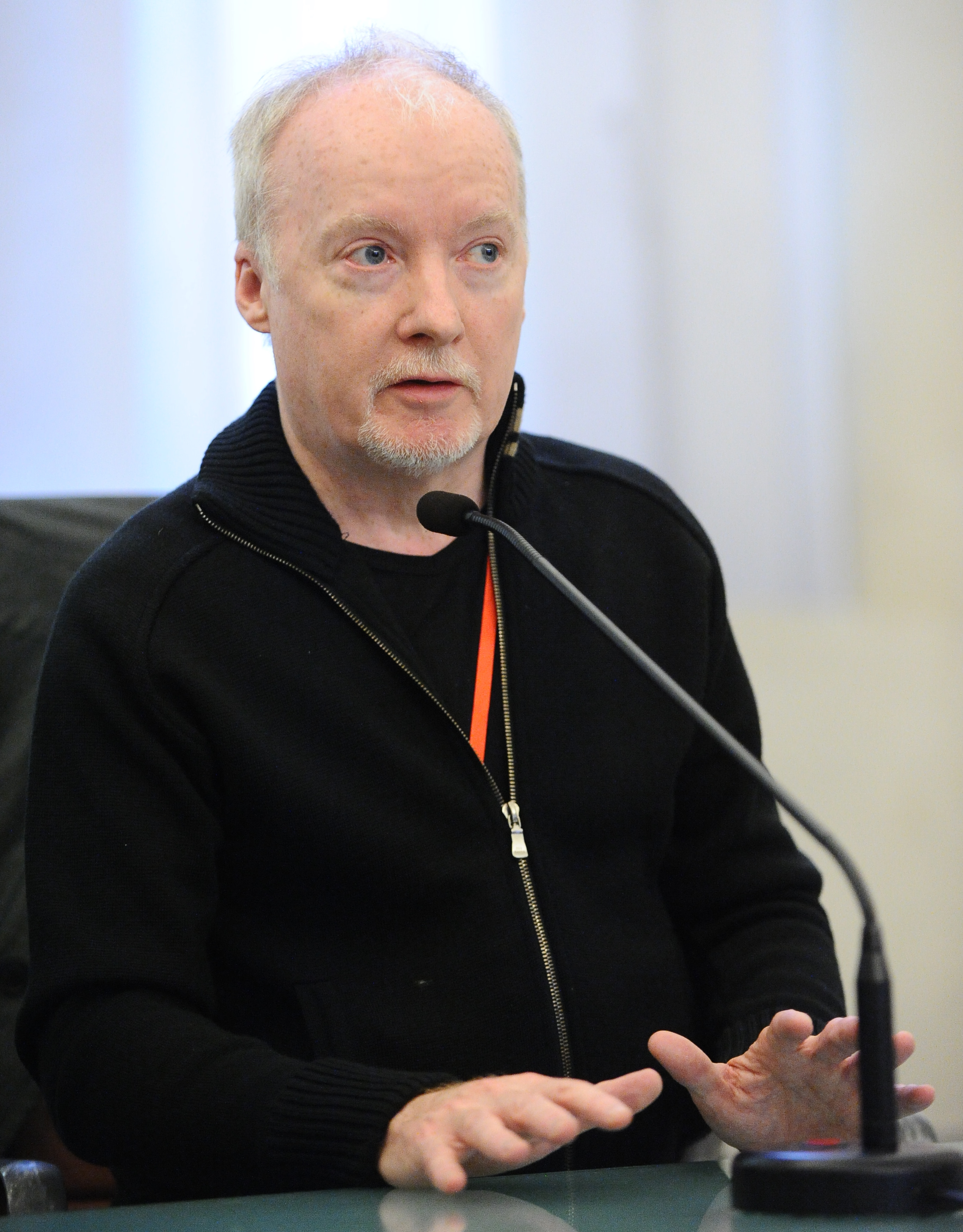 Kevin O'Neill at Lucca Comics and Games 2012.